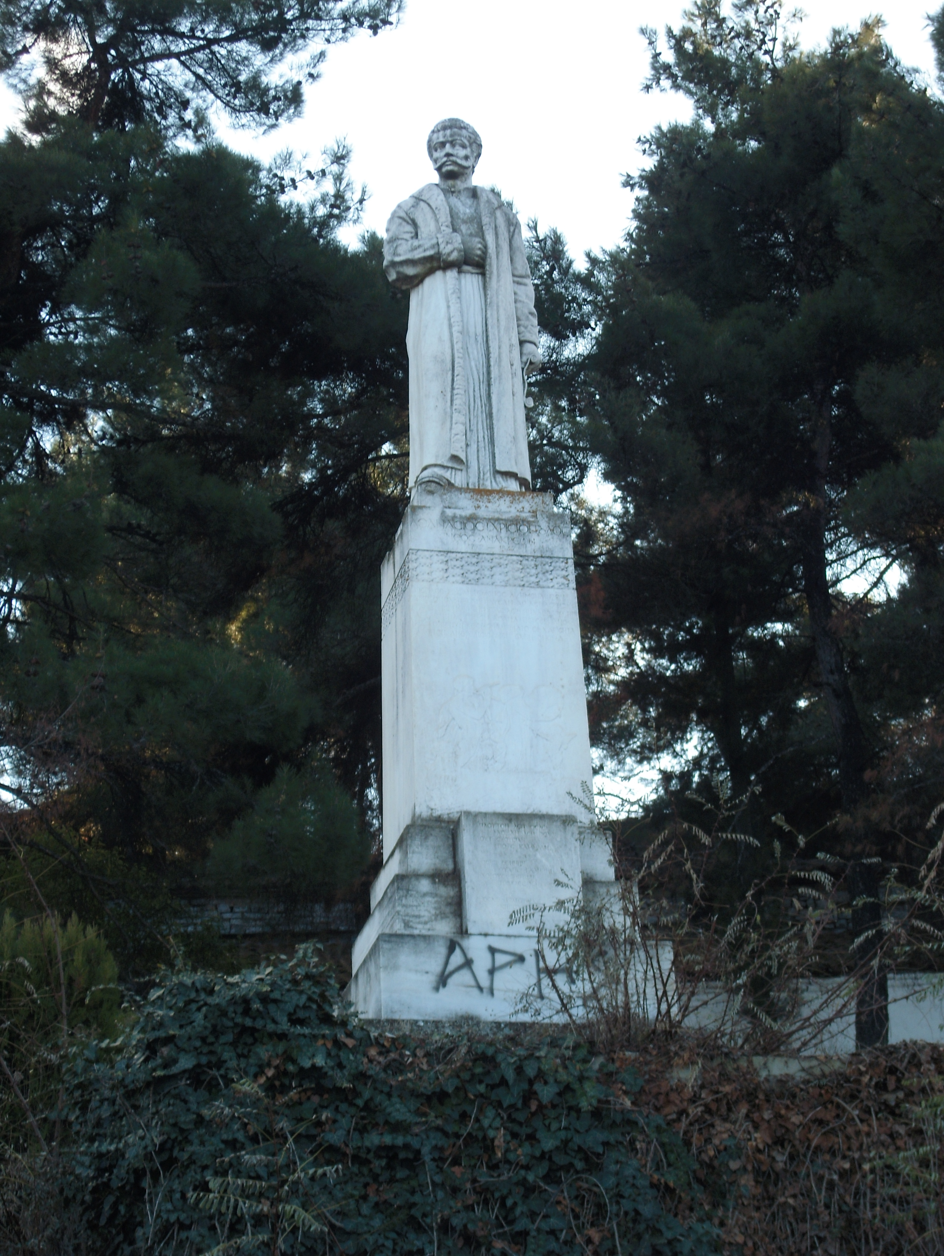 Views of Kostur / Kastoria